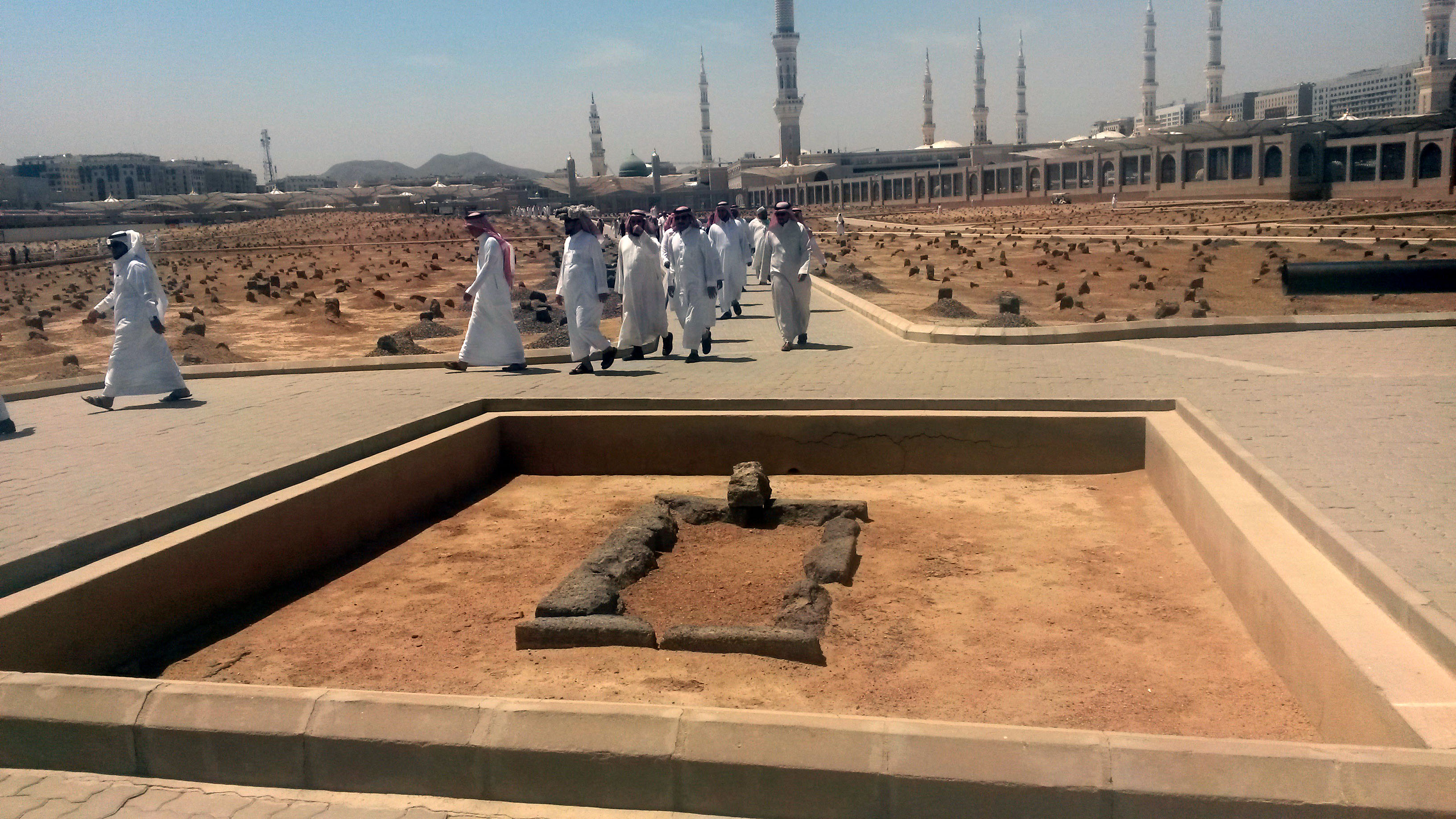 Othman tomb in Baqi